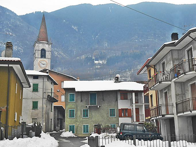 Rigolo